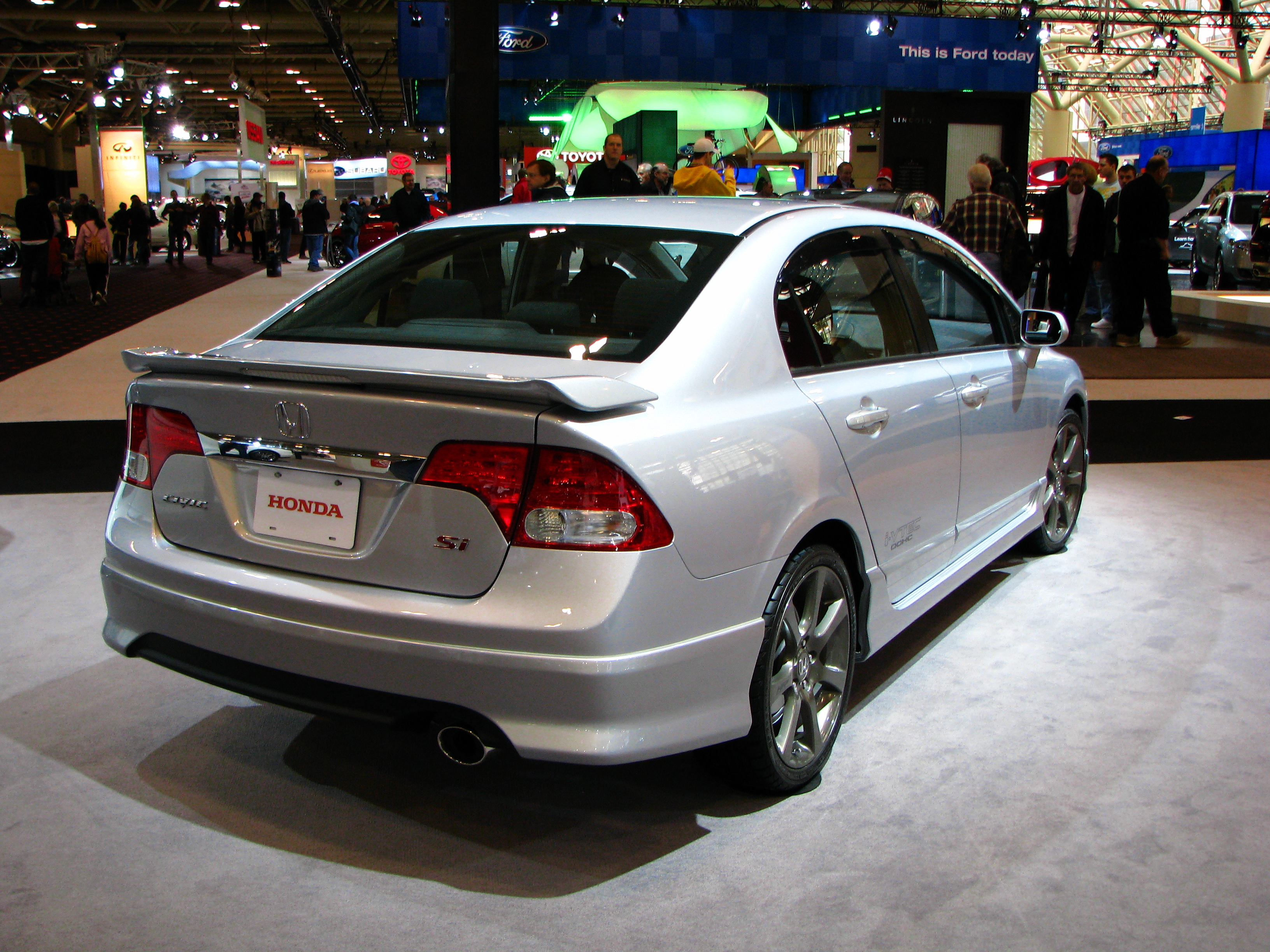 Honda Civic SI